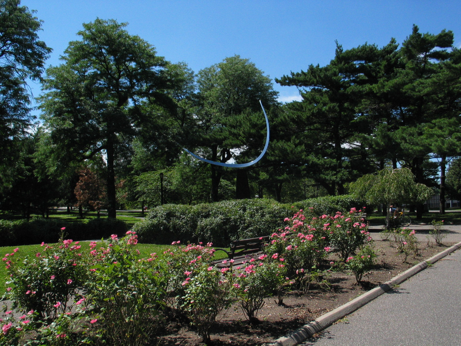 One of the alleys north of Unisphere